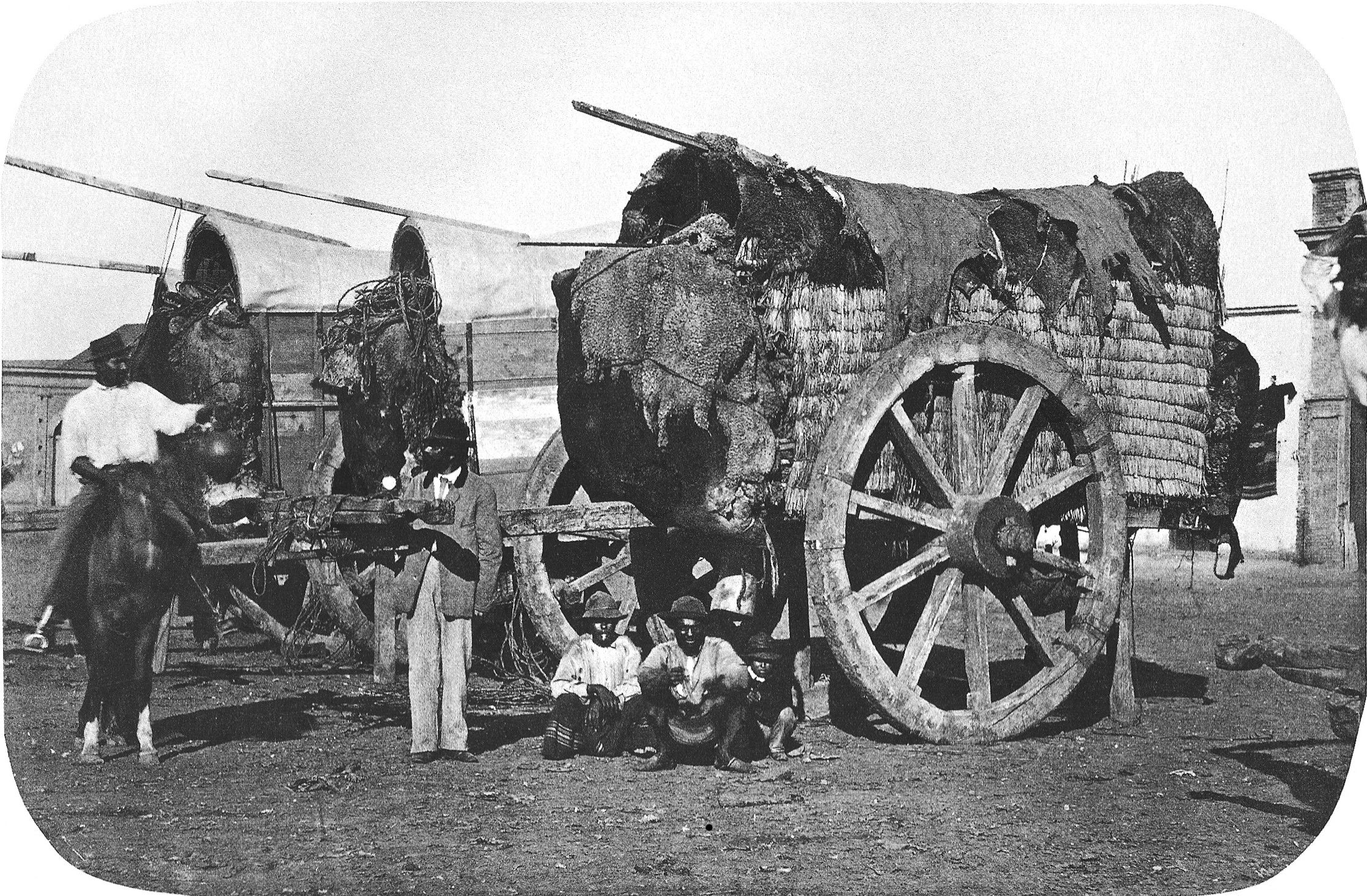 "Carretas de campaña"; Field wagons ("carretas") were introduced by the Spaniards at the end of the 16th century as transport for passengers and goods. This photo was quite probably taken at the Constitución market, in the southern area of Buenos Aires city. Wagon groups arriving to Constitucion came from the South of Argentina. Those coming from the East arrived at Plaza Once.